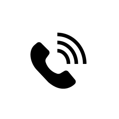 icon of phone communicating